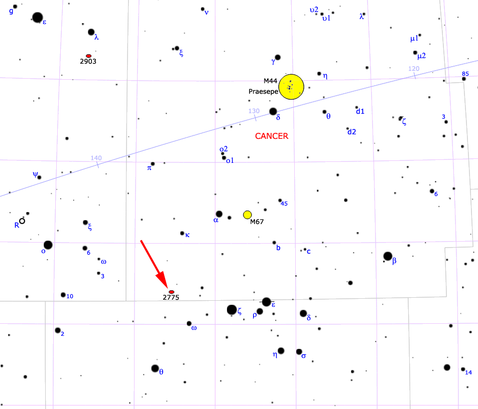 Map of NGC 2775